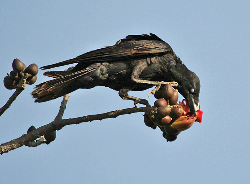 Large-billed Crow (Corvus macrorhynchos) at Keoladeo National Park, Bharatpur, Rajasthan, India.